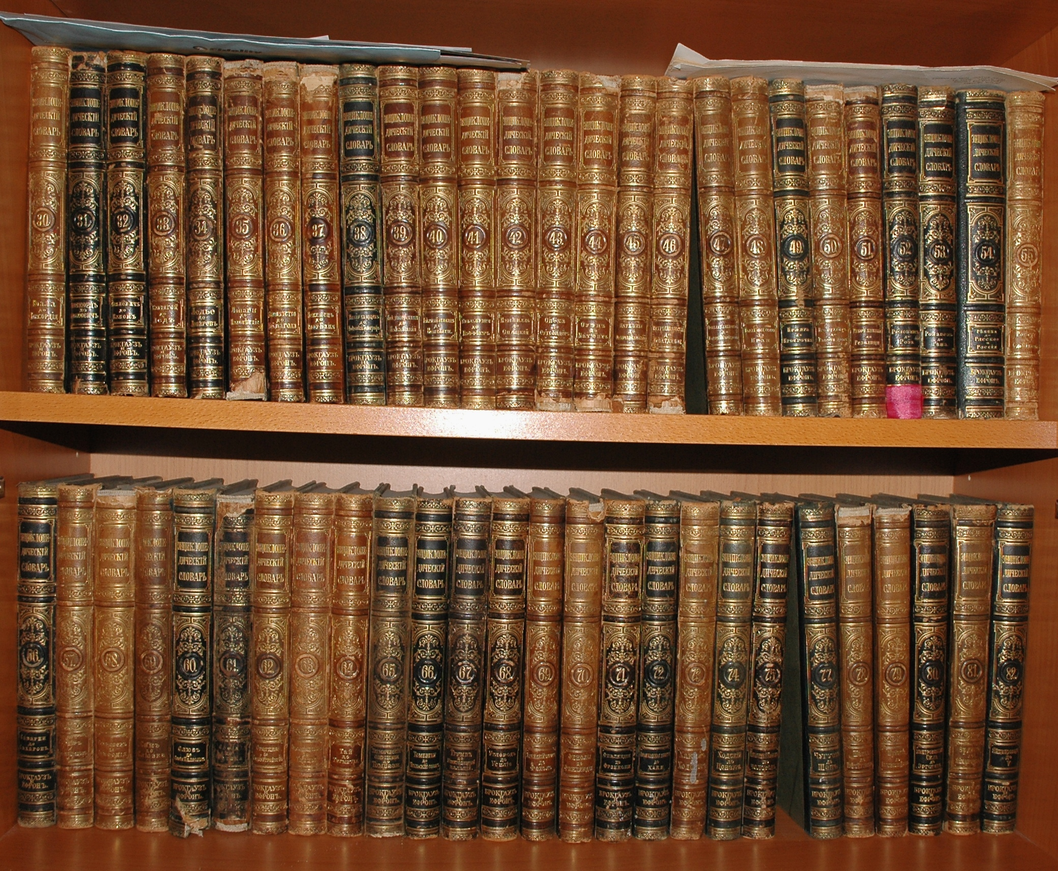 Brockhaus and Efron Encyclopedic Dictionary